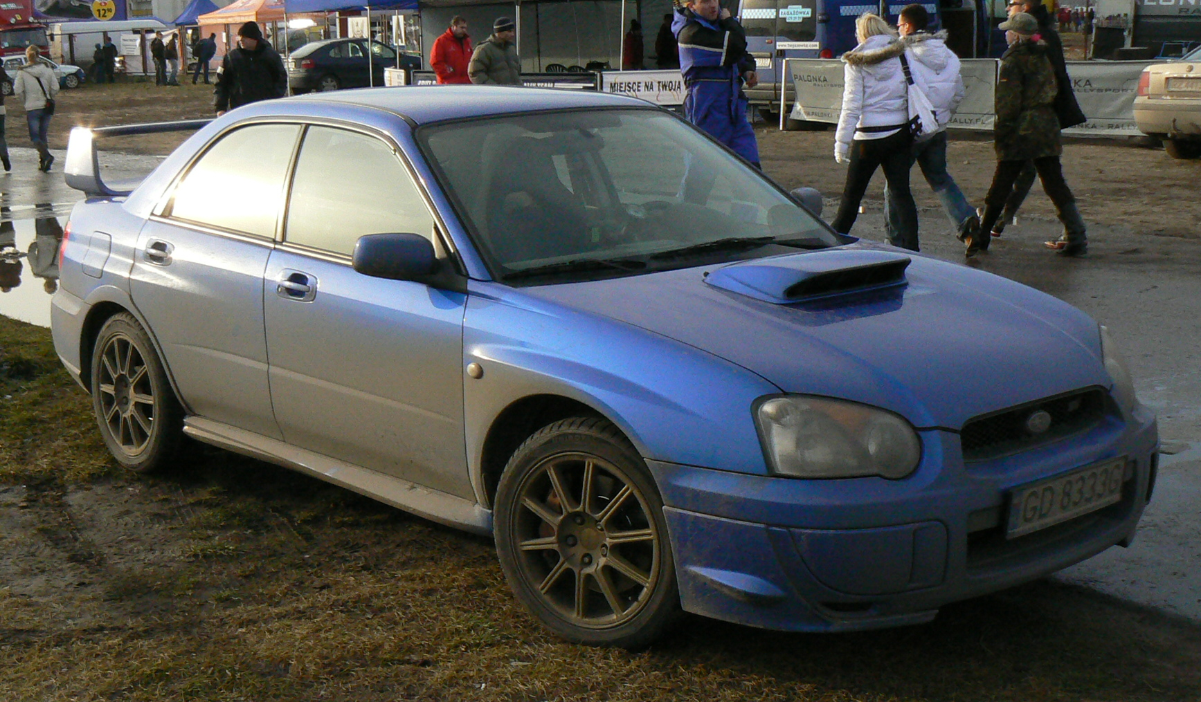 Second generation Subaru Impreza WRX STi, after the first facelift (MY2004 - 2005). Photo taken in Warsaw, Poland.